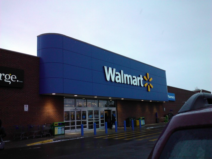 Walmart store in Gloucester (Ottawa), Ontario